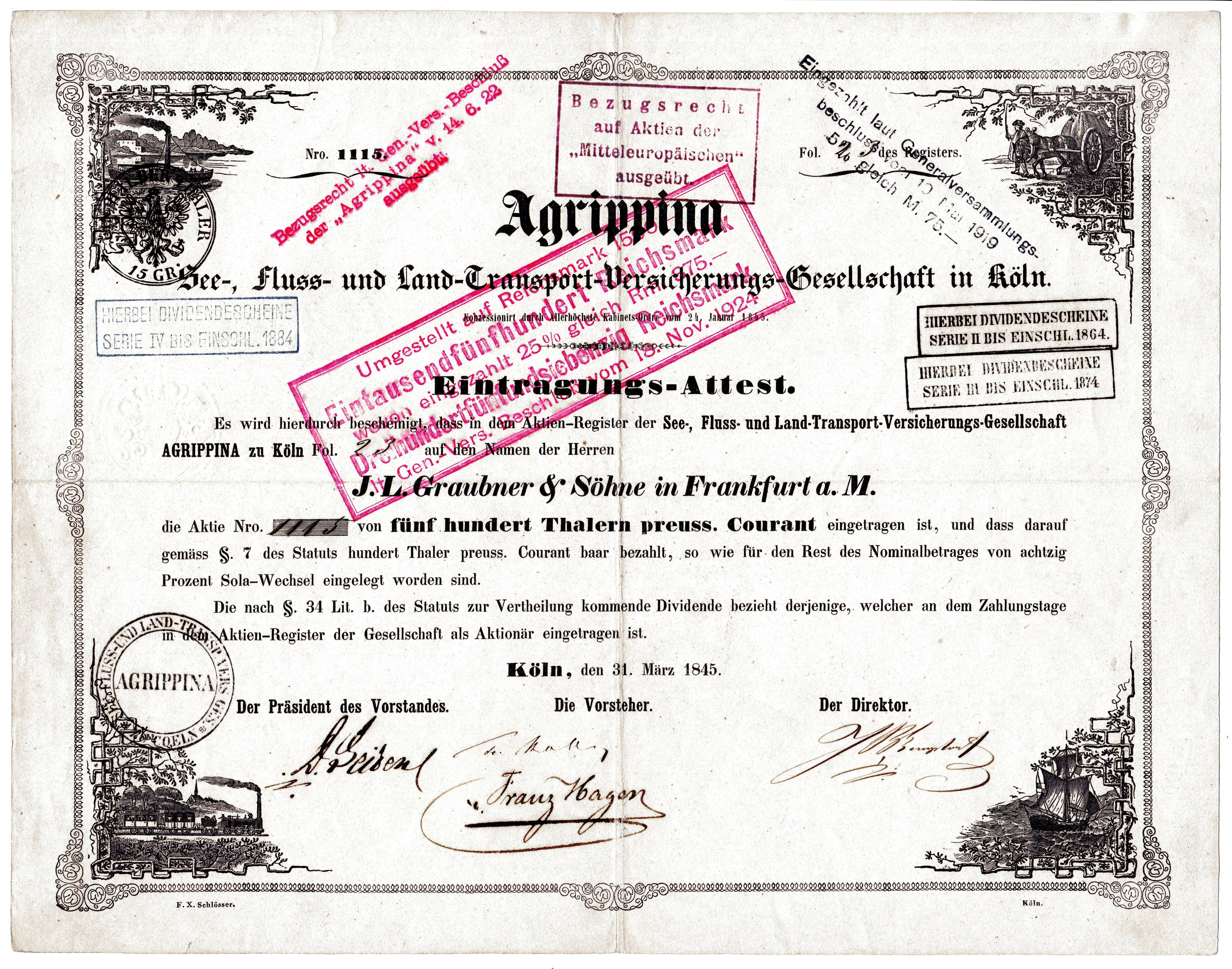 Share of the „Agrippina See-, Fluss- und Landtransport-Versicherungs-Gesellschaft“, issued 31. March 1845